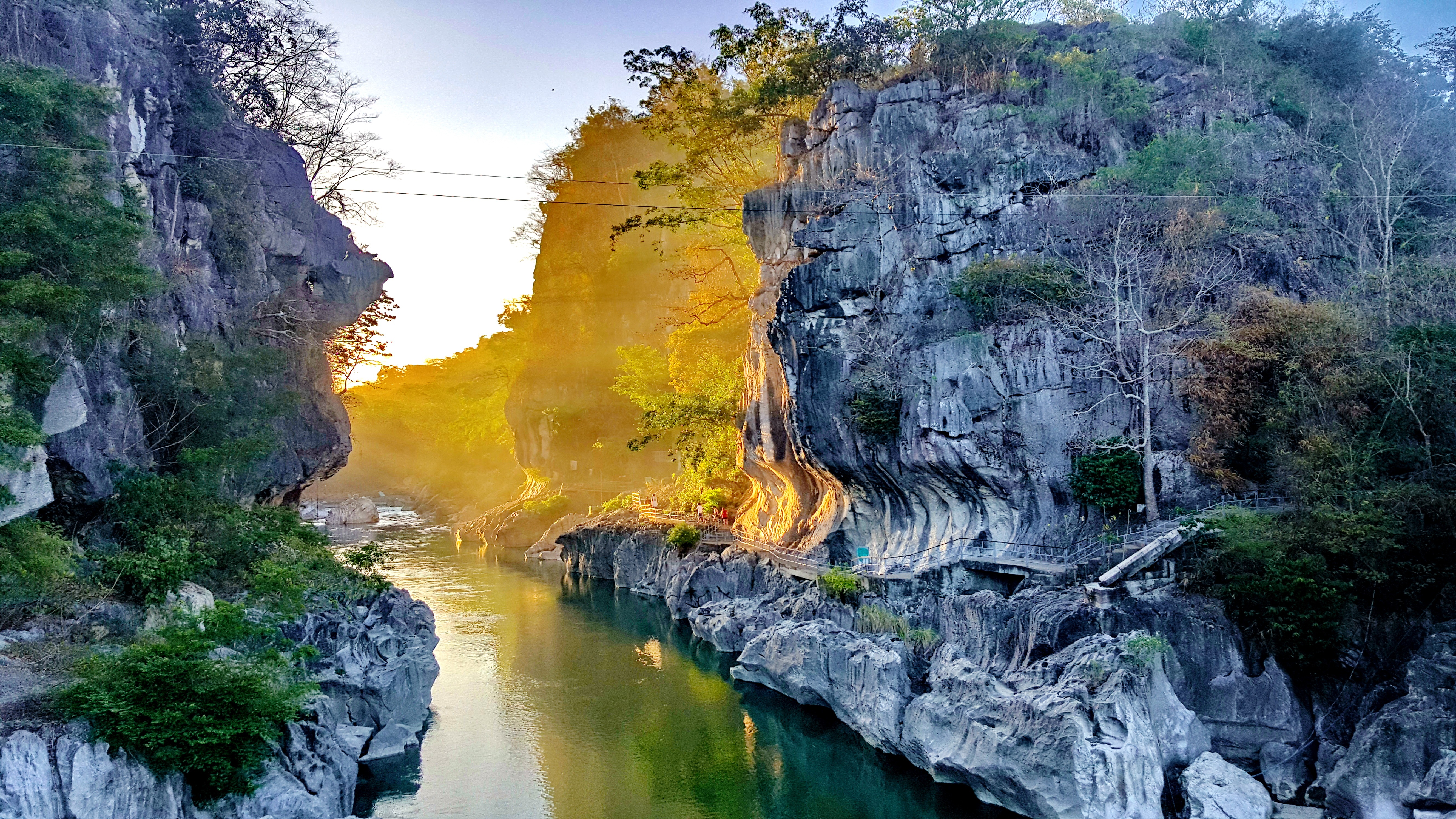 This photo was taken during a local university photography contest at a local university (Araullo University) by a student enrolled in Marketing Management in 3rd year. The student enrolled is a member of the student organization blackwing research which is a registered student organization dedicated to technology and marketing/business disciplines. Minalungao National Park is a protected area of the Philippines located in the municipality of General Tinio, Nueva Ecija in Central Luzon. The park covers an area of 2,018 hectares centered along the scenic Peñaranda River bordered on both sides by up to 16-meter high limestone walls in the foothills of the Sierra Madre mountain range. It was established in 1967 by virtue of Republic Act No. 5100. The park is considered as one of the few remaining natural environments in this region north of Manila. It is promoted by the local government as an ecotourism destination offering breath-taking scenery of green pristine river and unique rock formations. A system of unexplored caverns have also been identified as potential attractions. Facilities for picnics, swimming, fishing, raft riding and cliff diving have likewise been put up to draw more visitors. -Wikipedia (